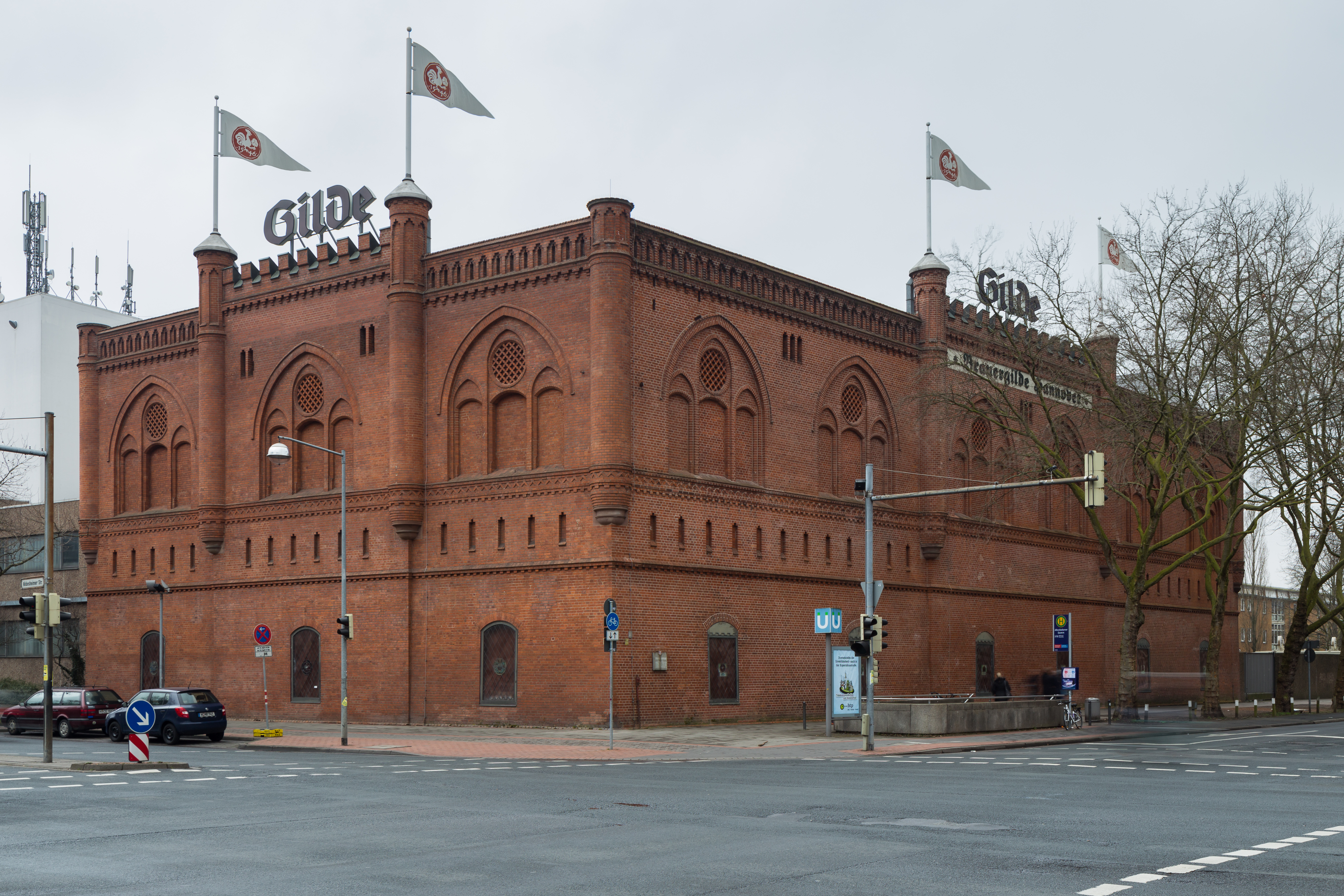 Factory building of Gilde brewery located at Hildesheimer Strasse and Altenbekener Damm in Suedstadt district of Hannover, Germany.